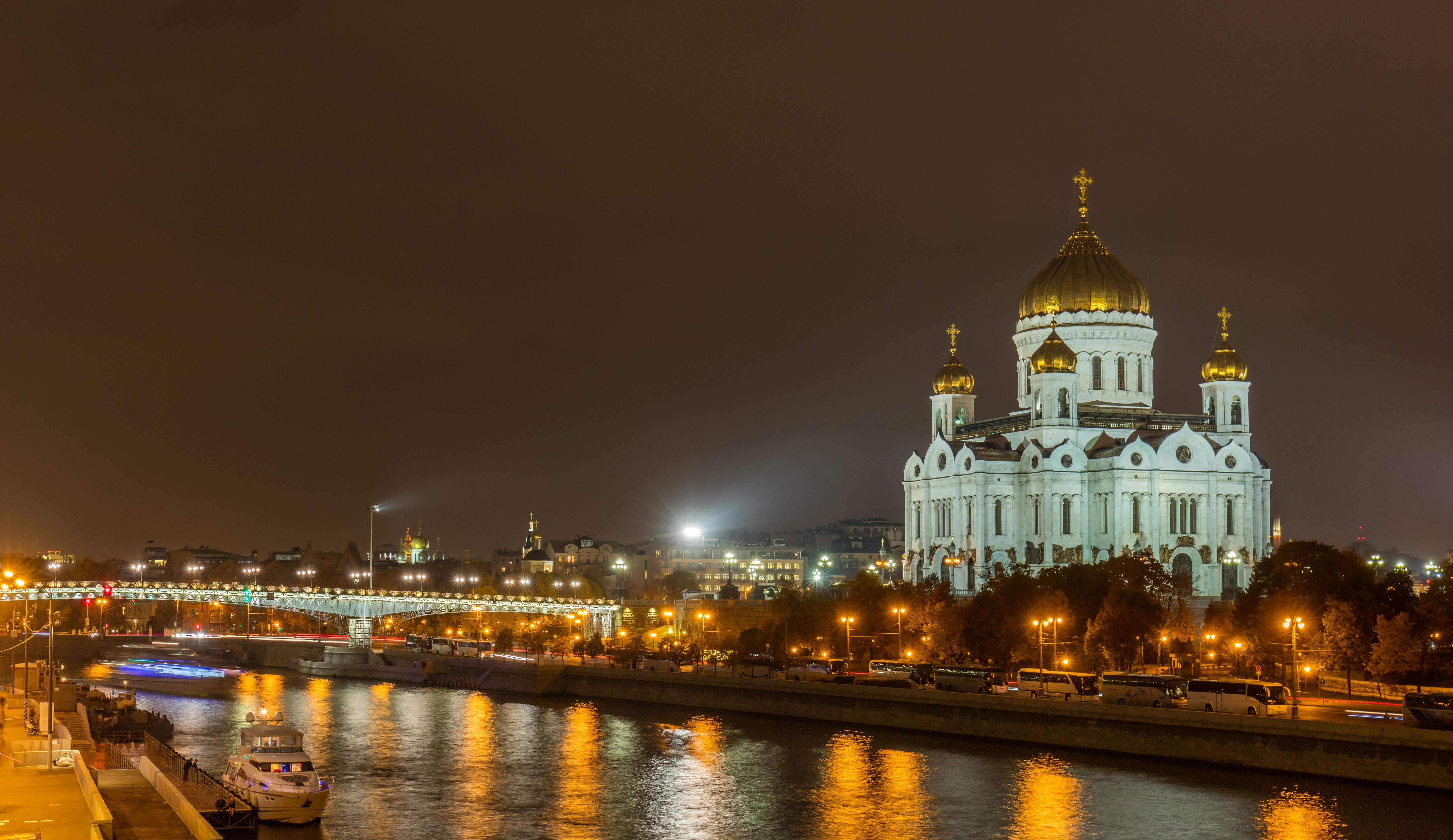 Cathedral of Christ the Saviour, Moscow, Russia